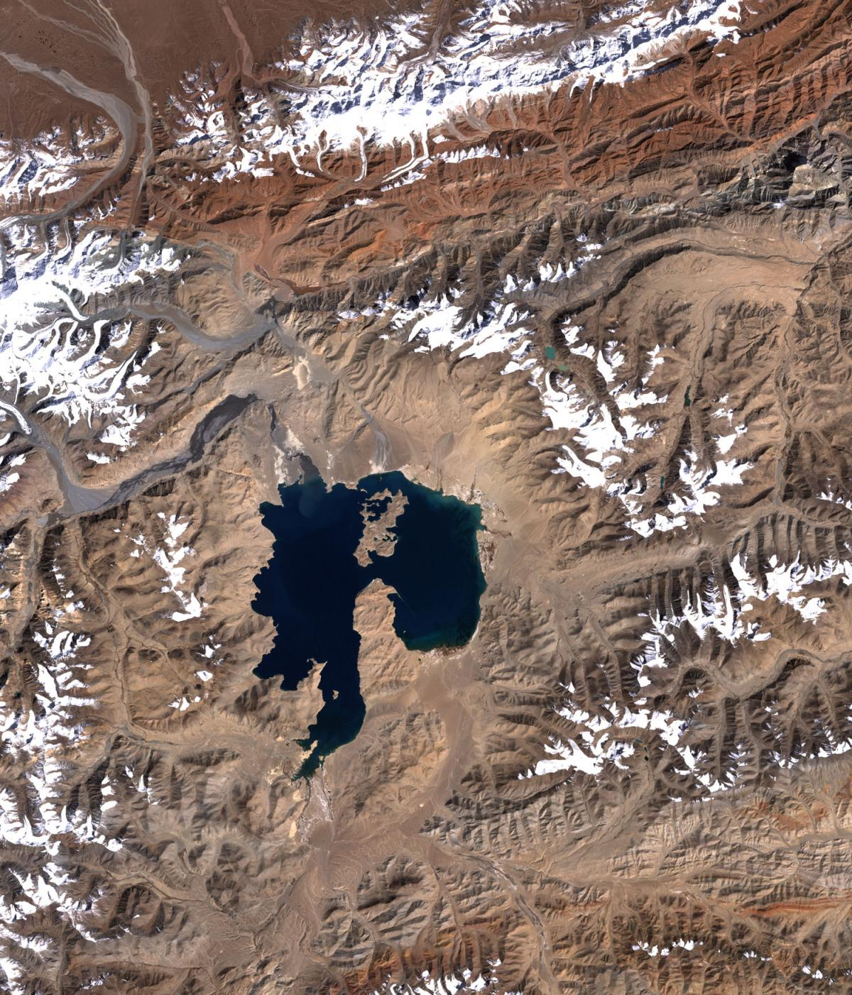 Kara-Kul Structure, Tajikistan